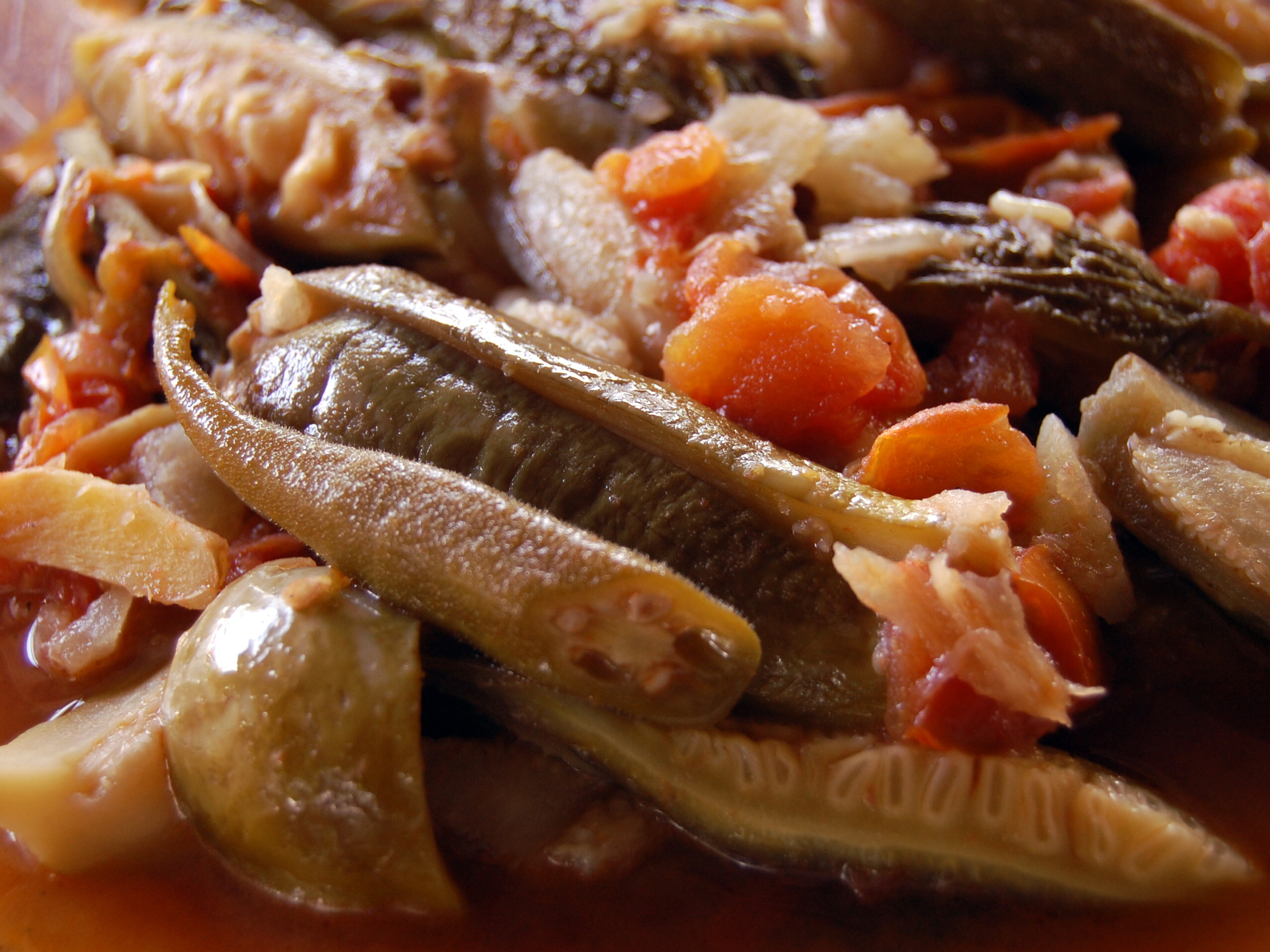 Pinakbet as it should be: vegetables fresh from the backyard garden, loads of tomato, and sweet saucy broth. Pinakbet is derived from the Ilocano word pakumbeten. It is cooked over low fire on bagoong sauce and the vegetables' own juices until they get wrinkled (i.e. kumbet). What is in the photo is a genuine ilocano recipe cooked for us by the farmers of Mapangpang in Munoz, Nueva Ecija. Nikon D40 (RTL TV Rice Crisis Documentary Shoot, July 2008)